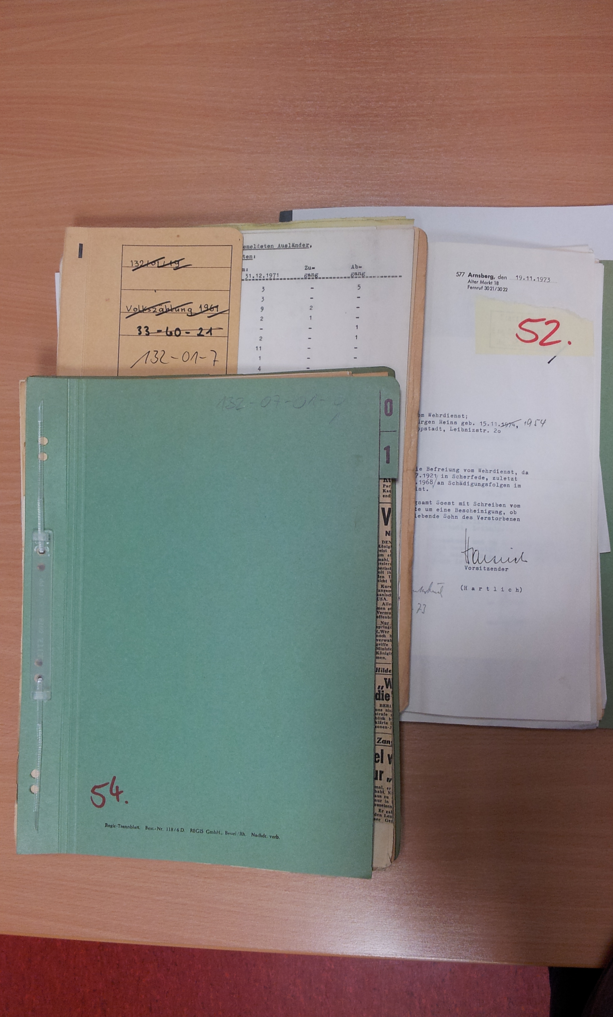 Files for use on a desk